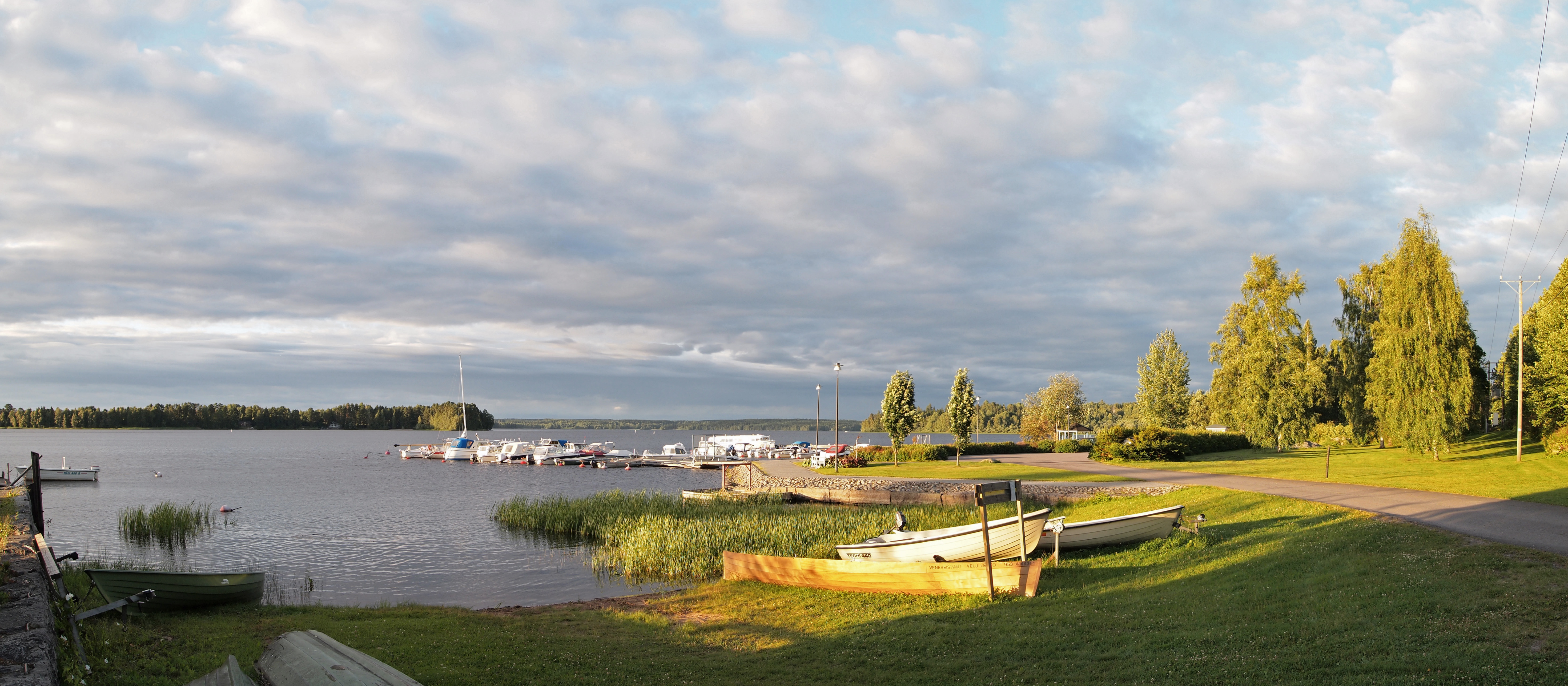 Harbour in Ikaalinen. This photograph was taken with an Olympus E-PL1